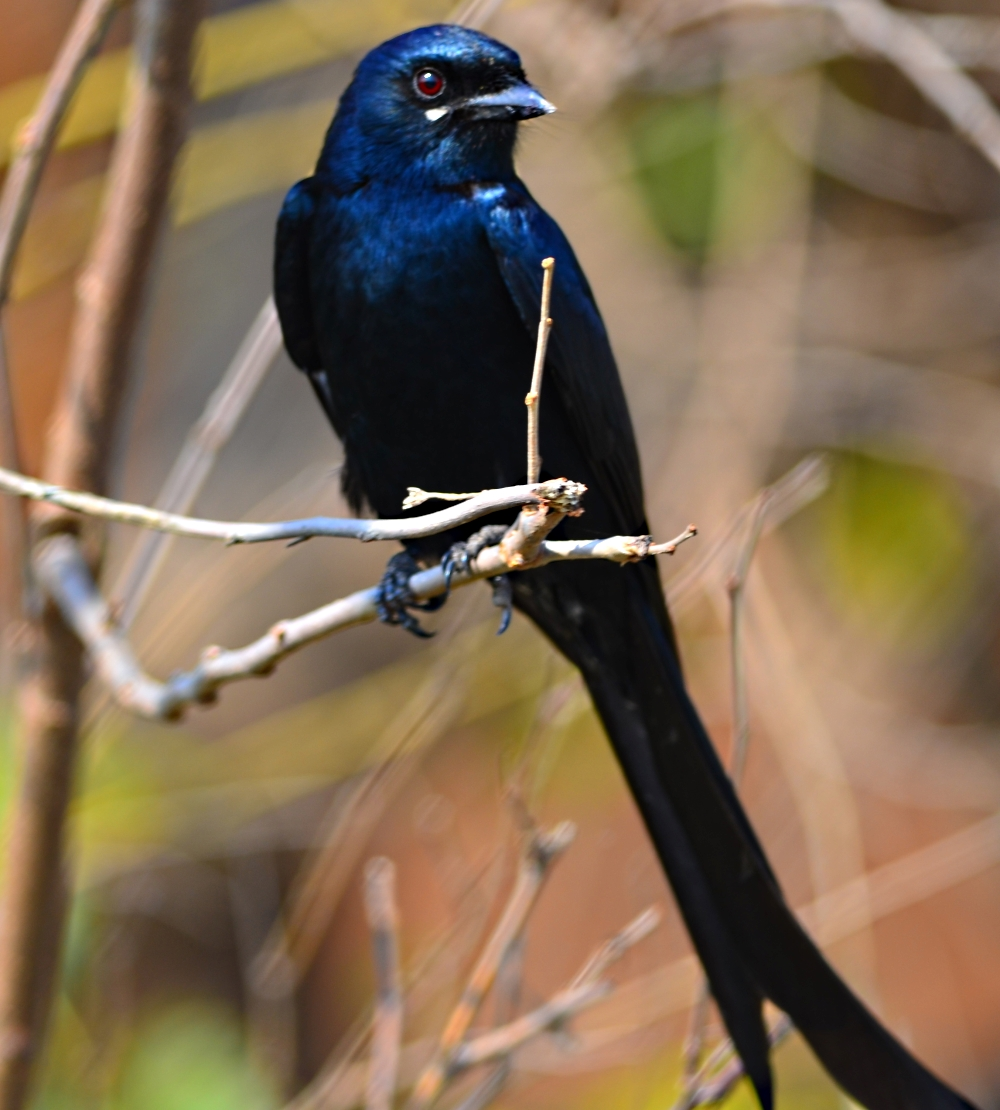 Black Drongo